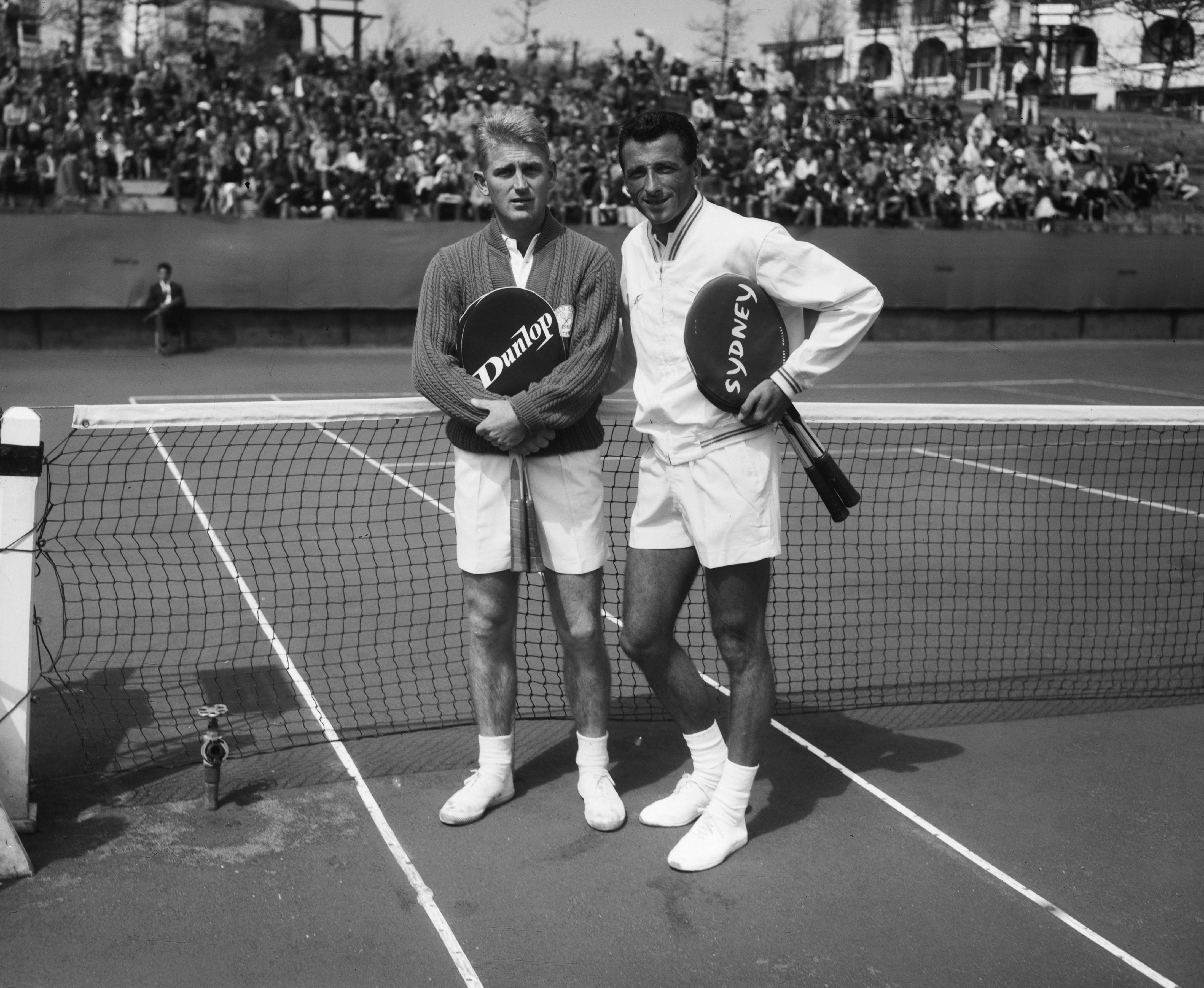 Tennis players Lew Hoad (left) and Robert Haillet (right) at the Dutch Professional Championships in Noordwijk.